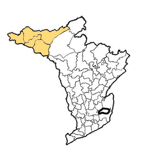 Yetapaka revenue division in East Godavari district (in orange)